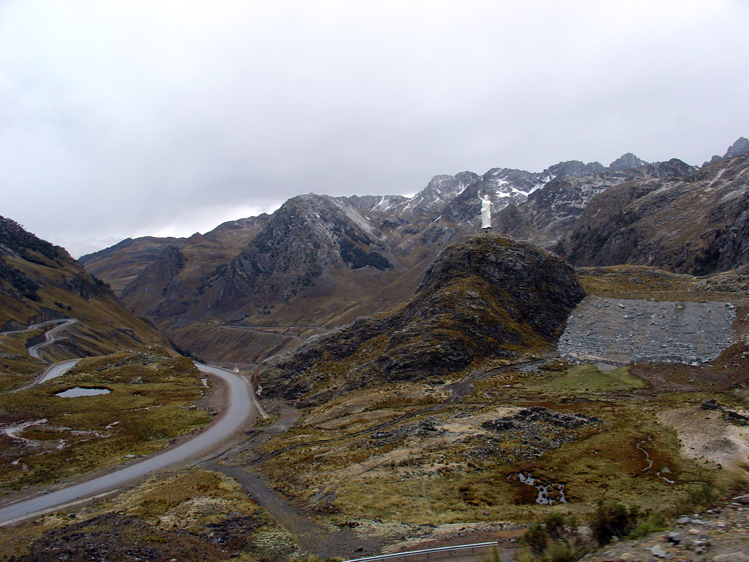 Road between Chavin and Huaraz